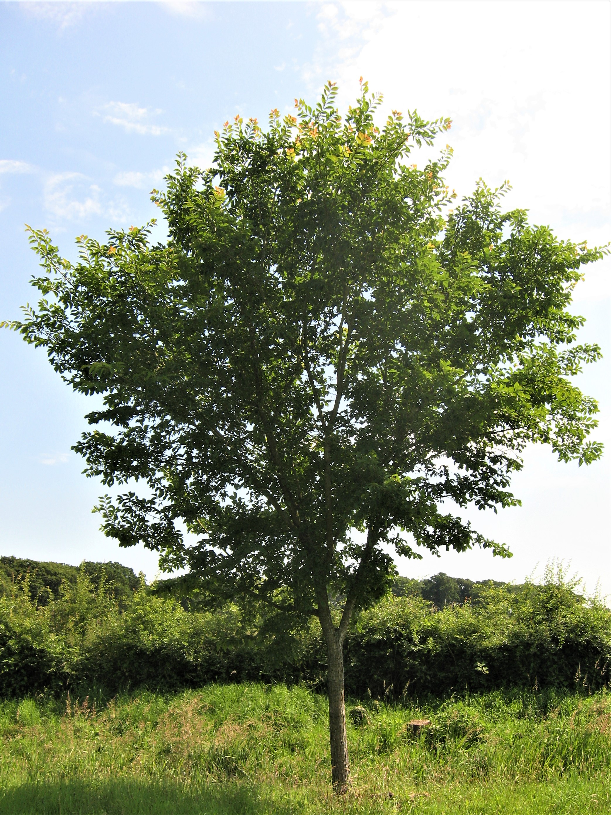 Photo of Ulmus 'Morton Glossy' = TRIUMPH, 20 years old, Boarhunt mill race, England